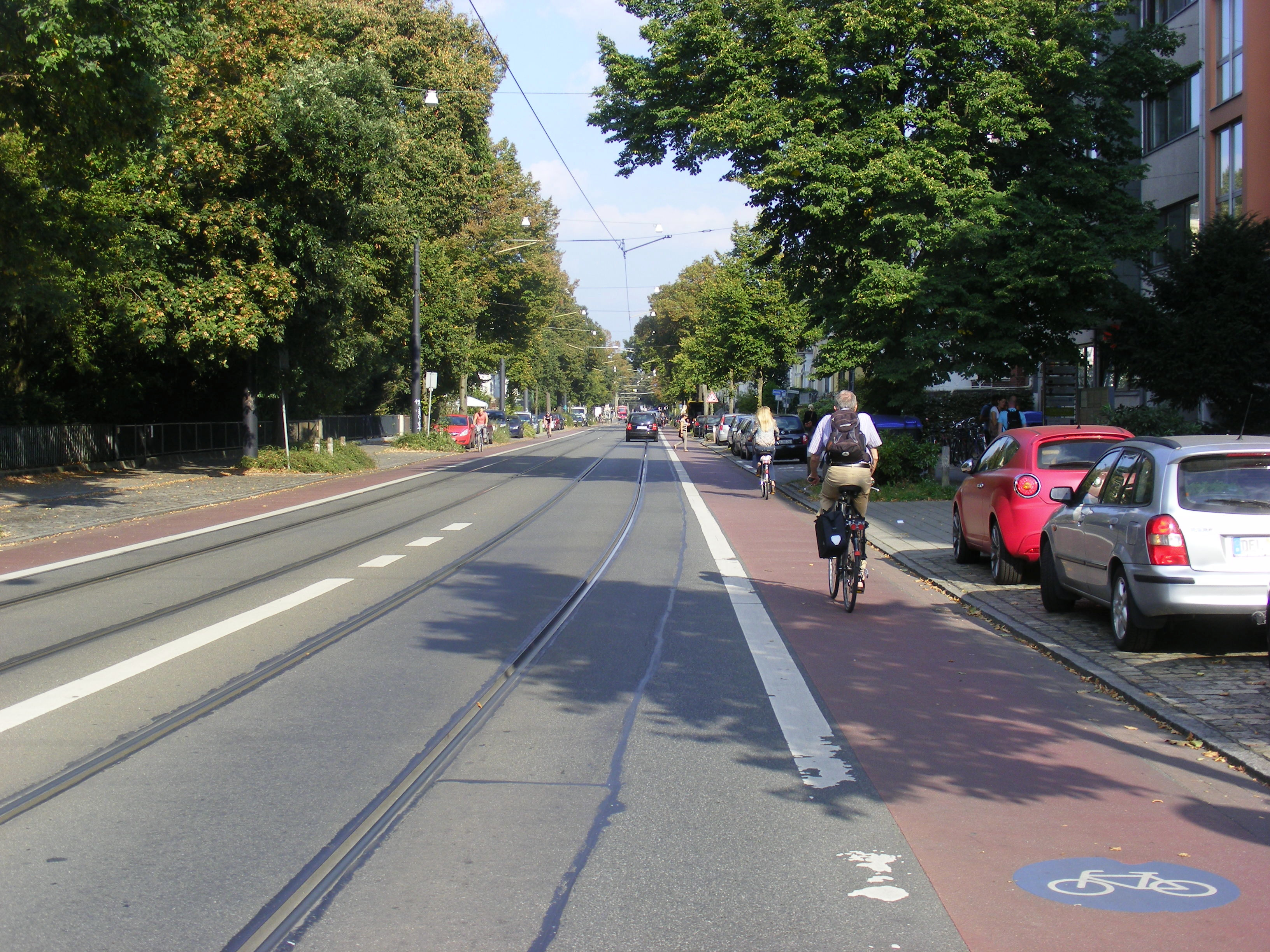 The cycle lanes in Wachmannstraße, Bremen, are a success of the German cycle club ADFC and local Green politicians